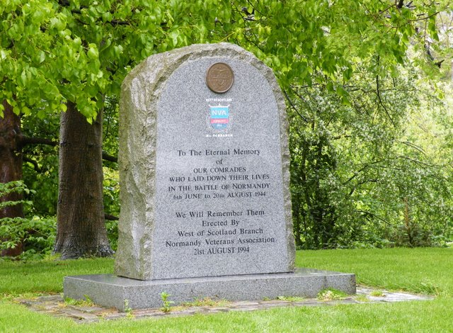 Normandy Veterans Association memorial. In Kelvingrove Park, near the museum & art gallery. See also 1301852.